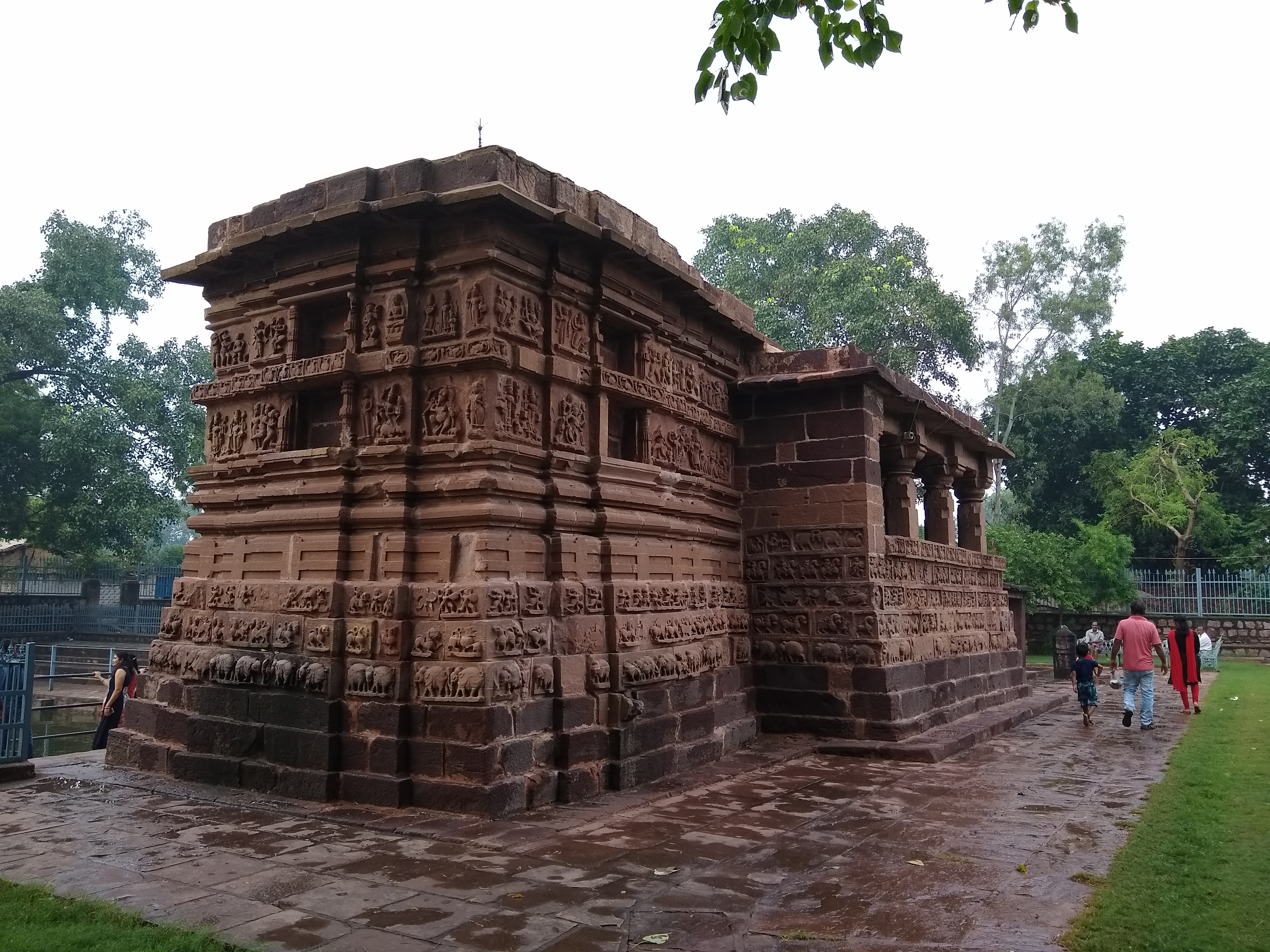 The back view of the Shiva temple, Deobaloda